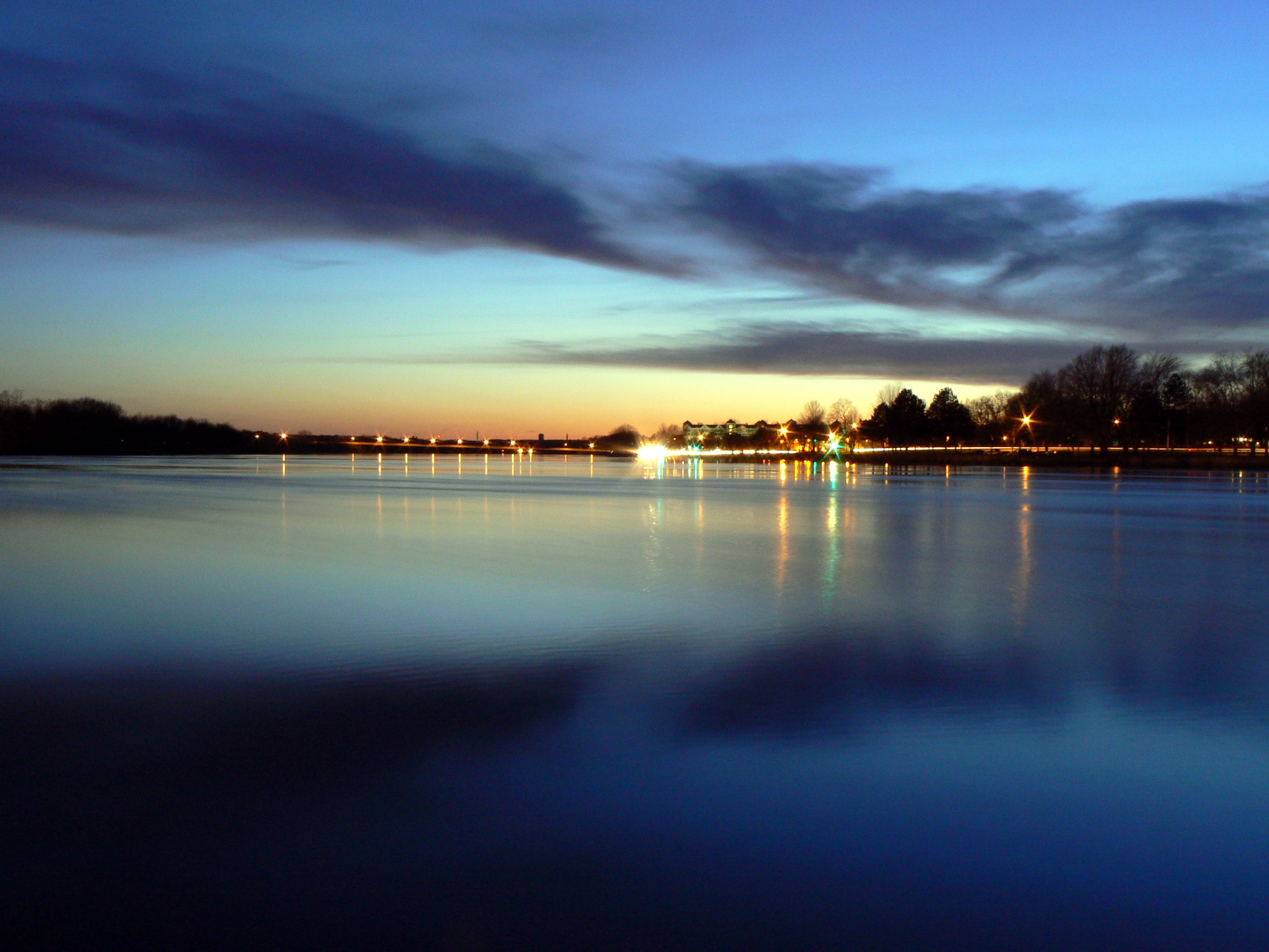 The Merrimack river in Lowell, MA at sunset